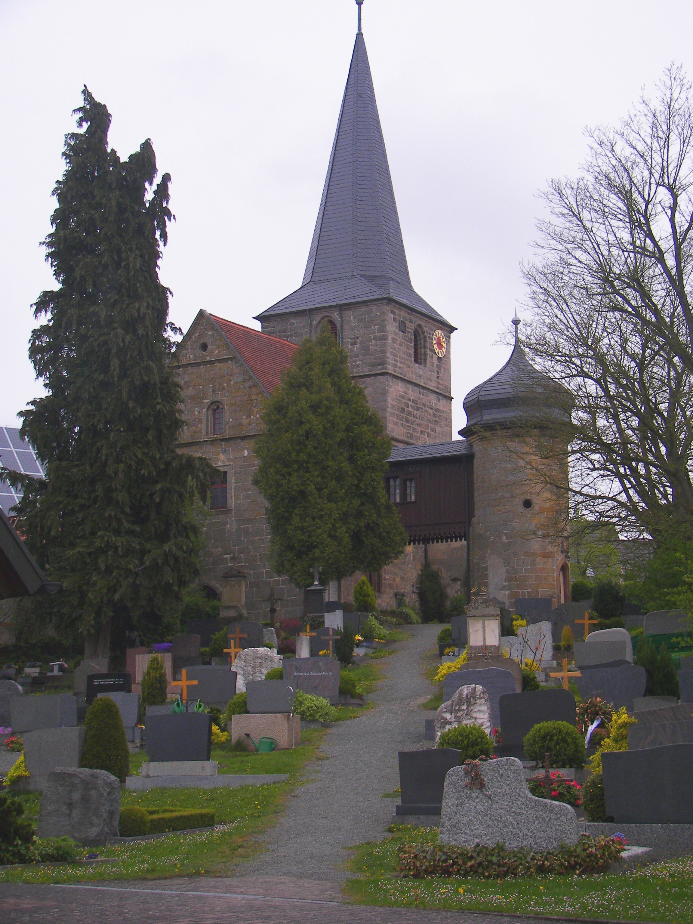 Church an cemetery of Veitlahm, borough of Mainleus